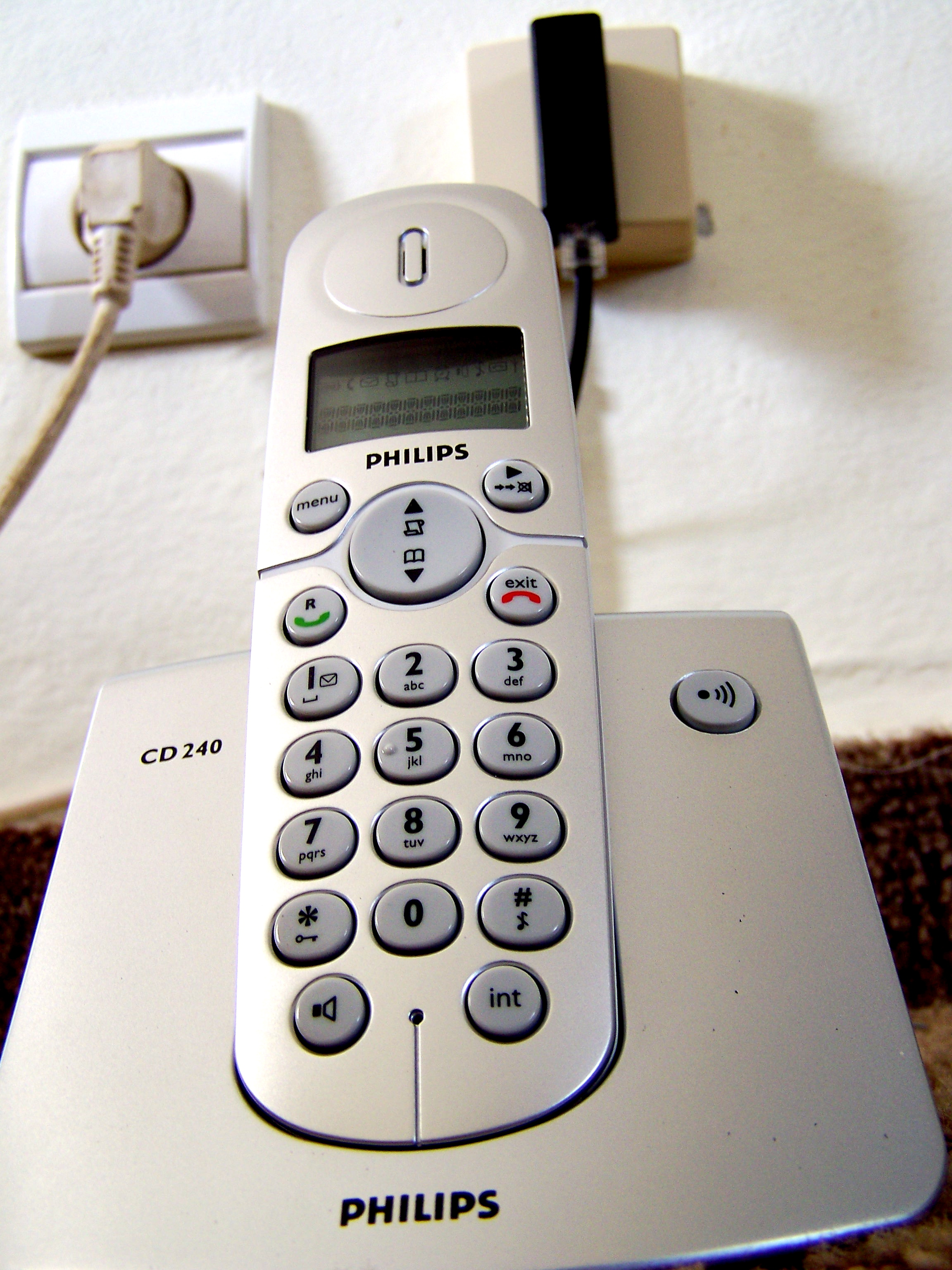 Telephone sans fil philips CD240